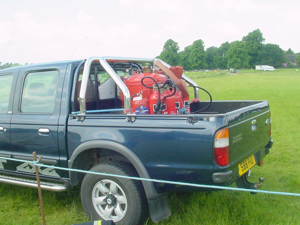 Big fire extinguisher